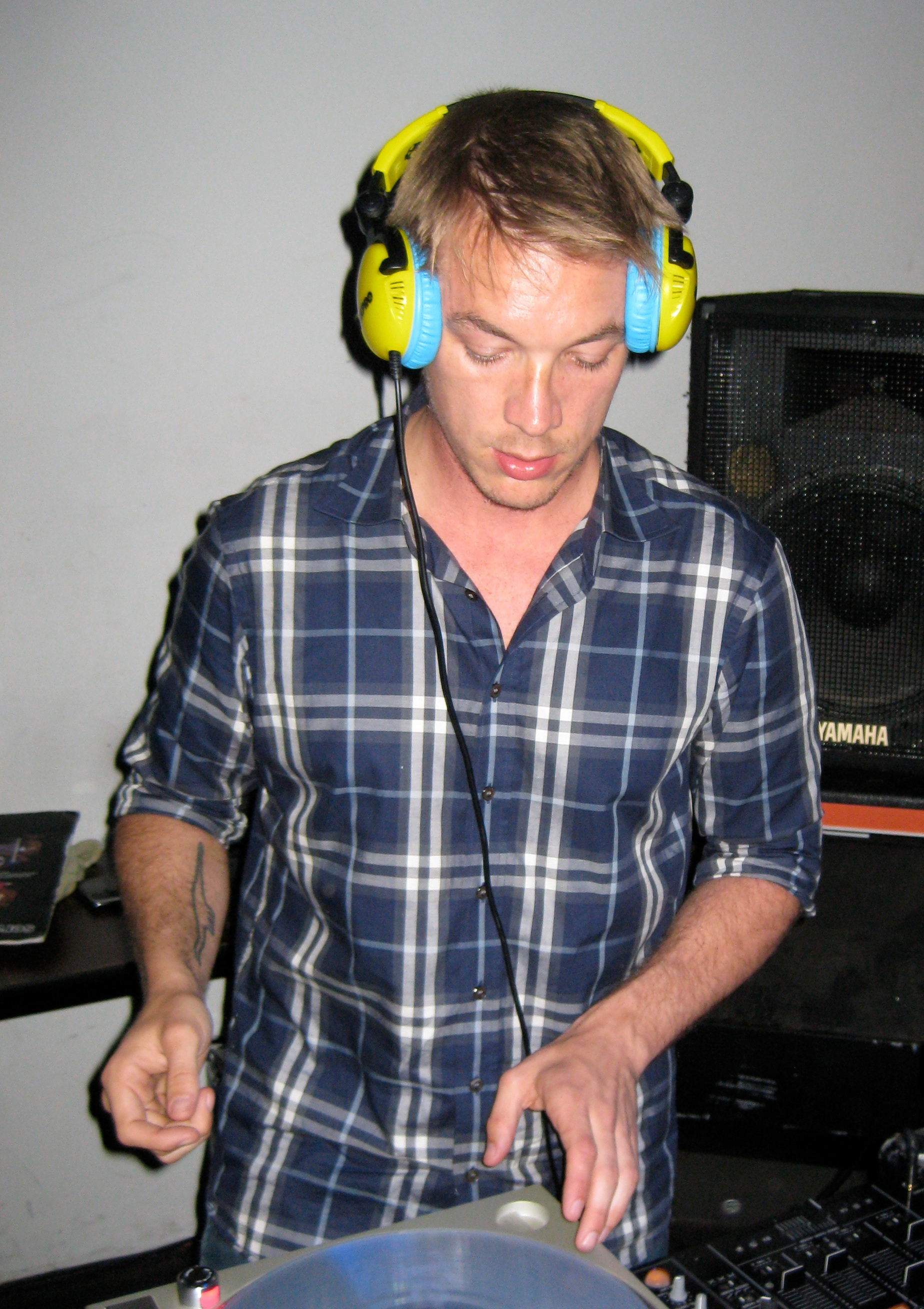 Diplo performing at Soundlab in Buffalo, New York on 7 May, 2009.